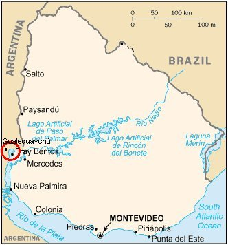 Uruguay map, with cellulose plants area marked